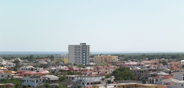 La Romana